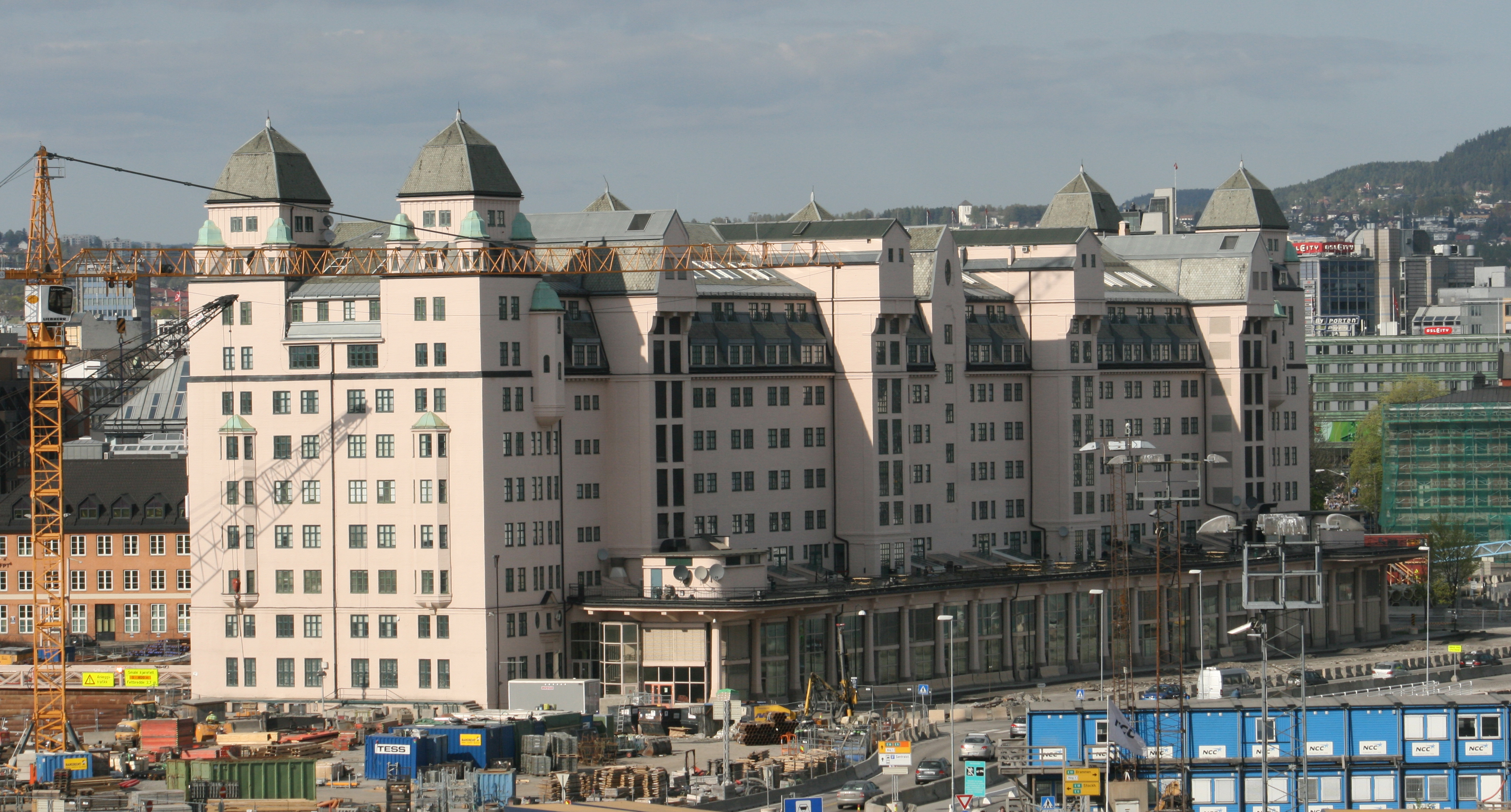 Oslo havnelager; a warehouse reconstructed for office use at Oslo harbour. Built 1916-1920; architect Bredo Berntsen